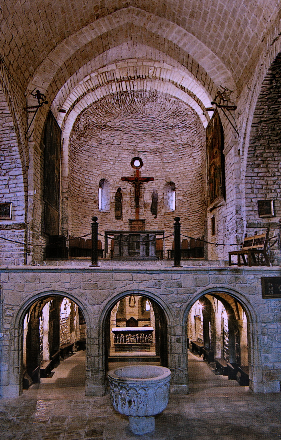 Uncovered crypt of the San Vicente Cathedral, in Roda de Isábena, Huesca, Spain.